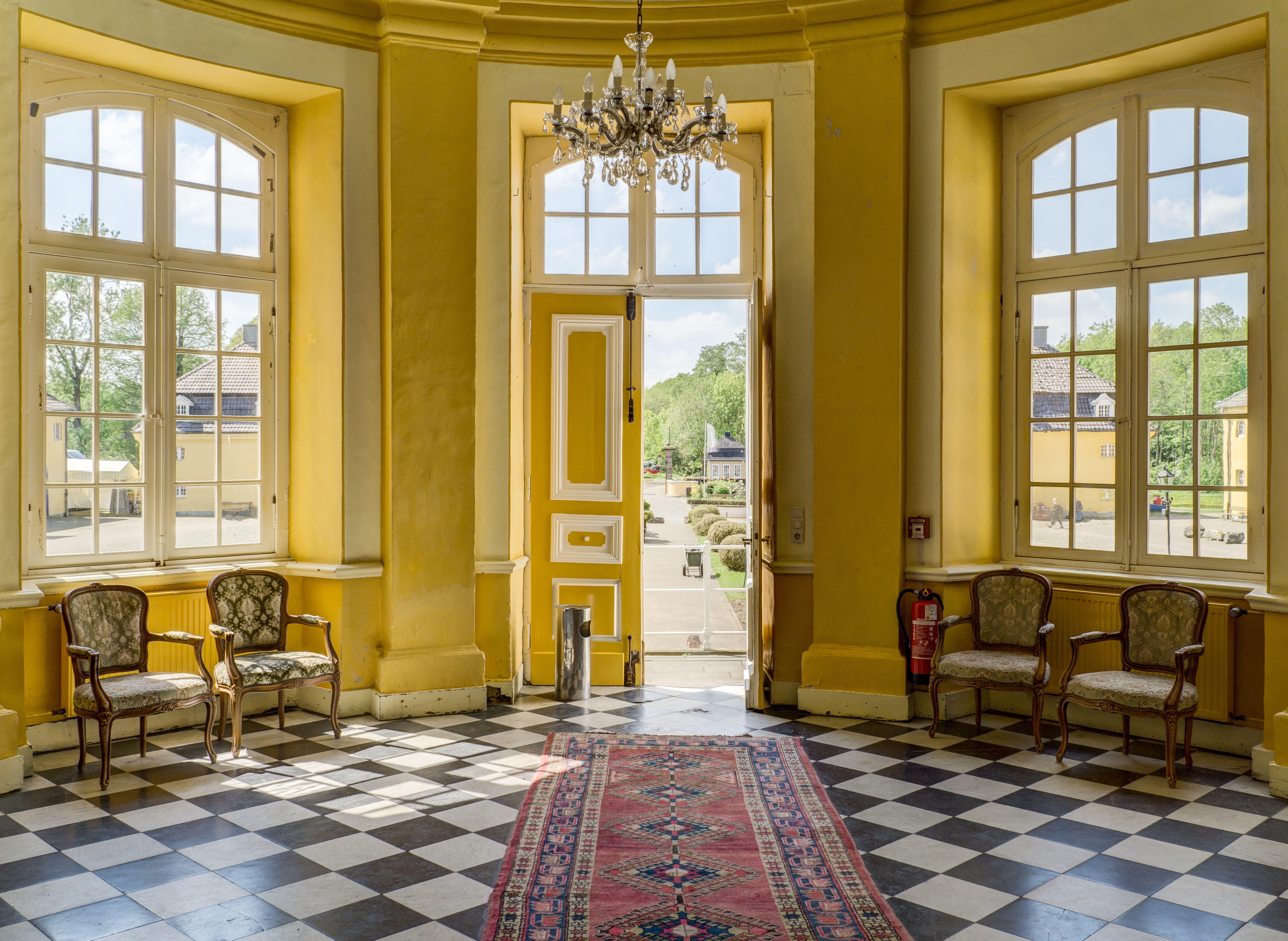 Interior shot of Schloss Beck